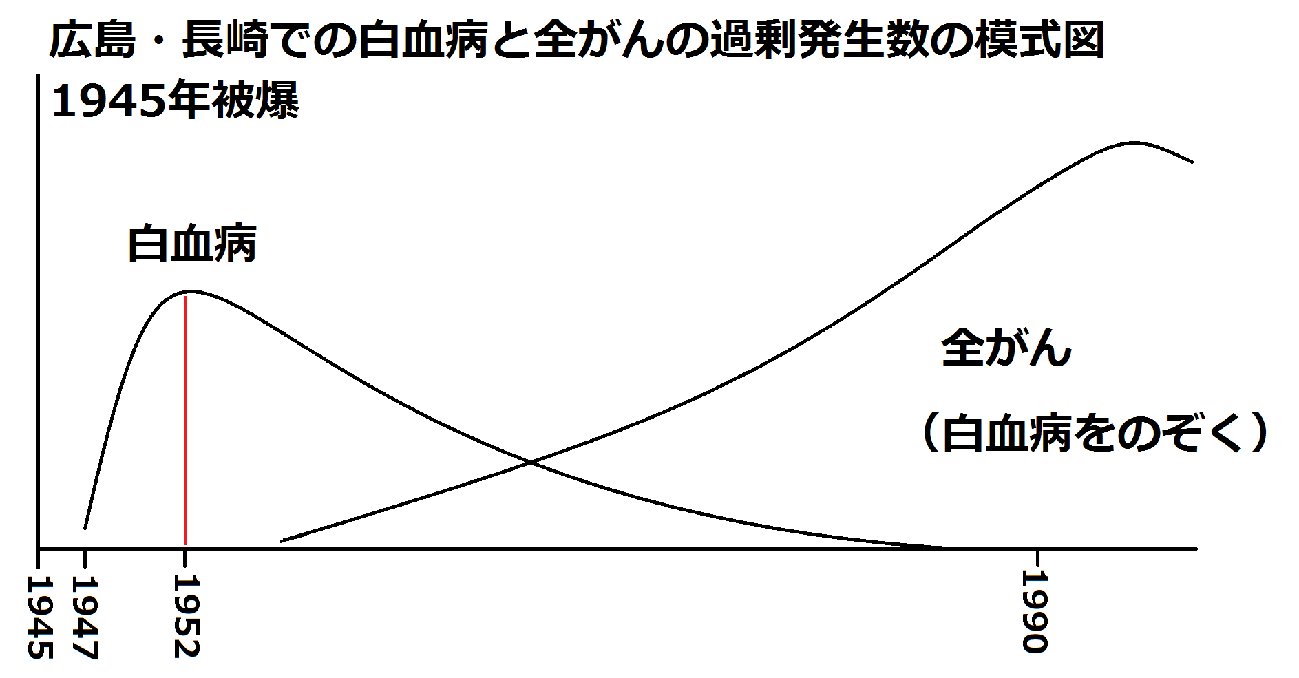 Leukemia and All cancers in Hiroshima and Nagasaki